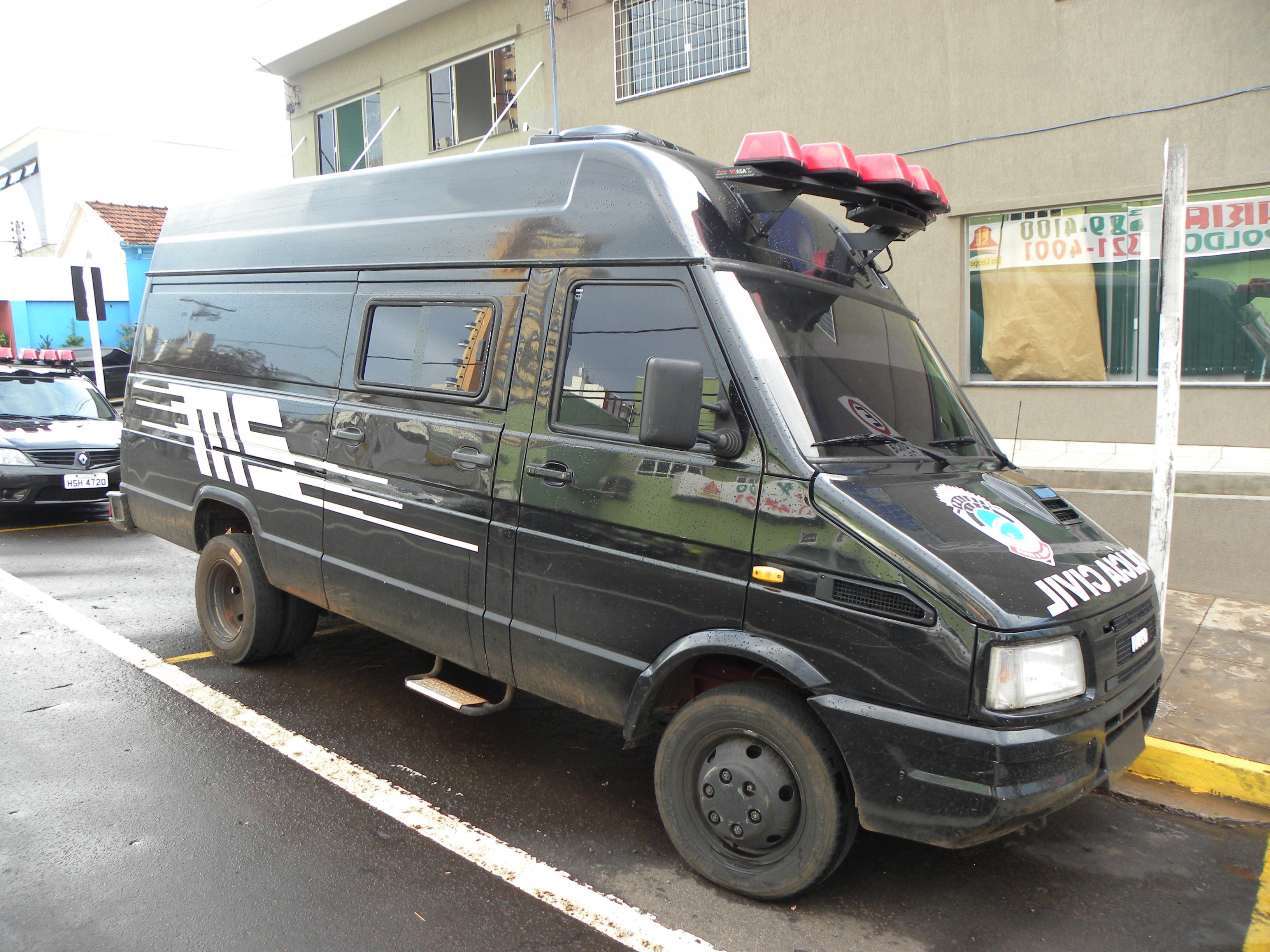 Iveco Daily Mk2 police van of Mato Grosso do Sul Civil Police, Brazil.